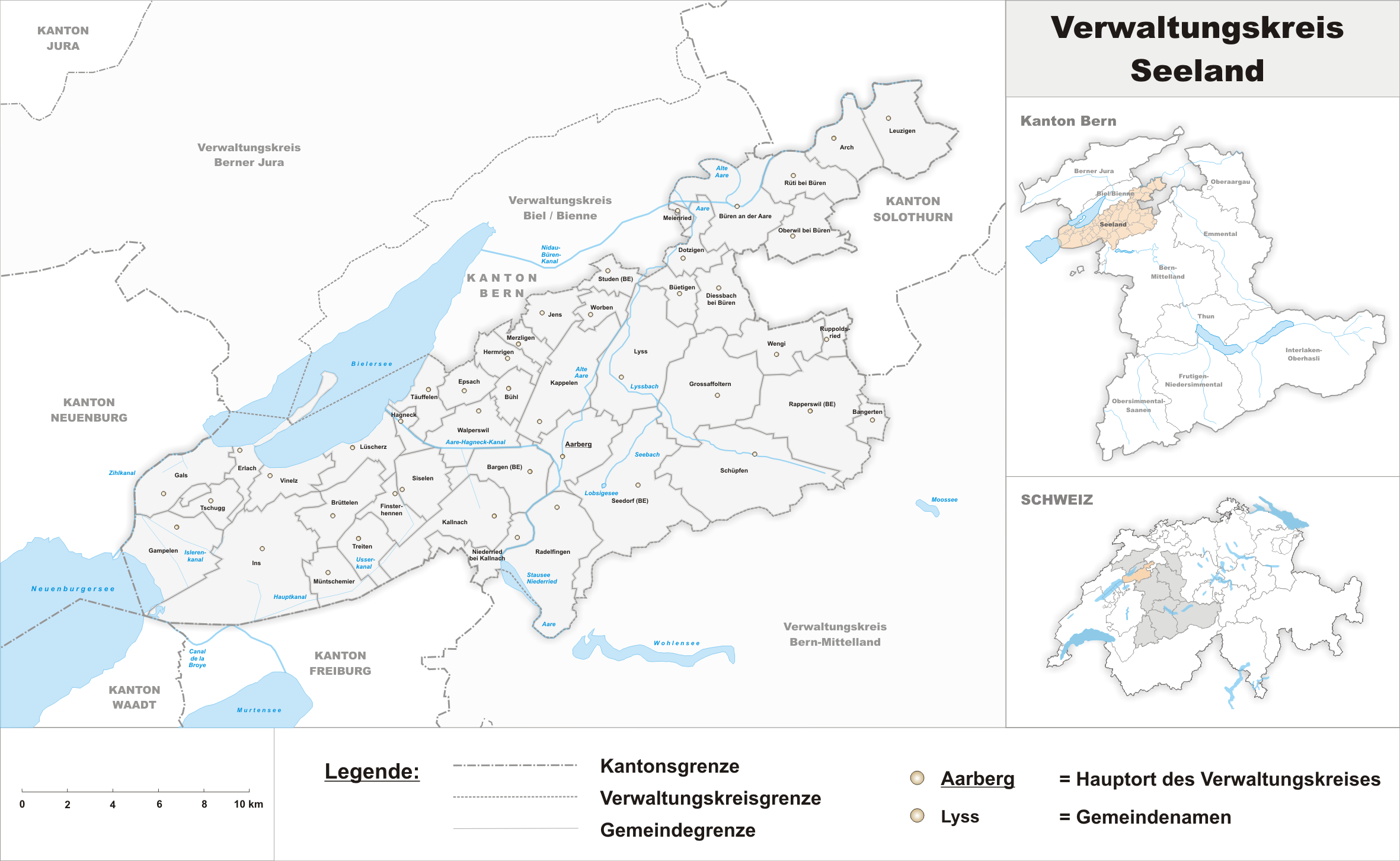 Municipalities in the district of Seeland